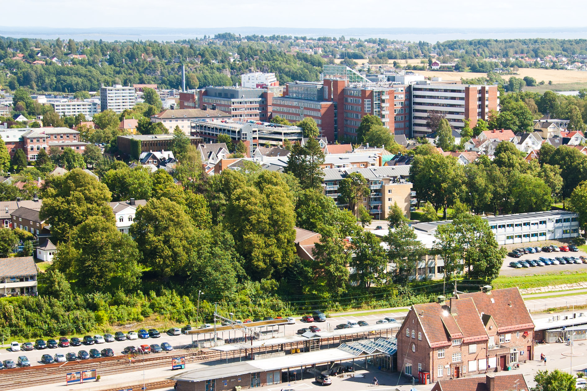 Vestfold Hospital in Tønsberg, Norway